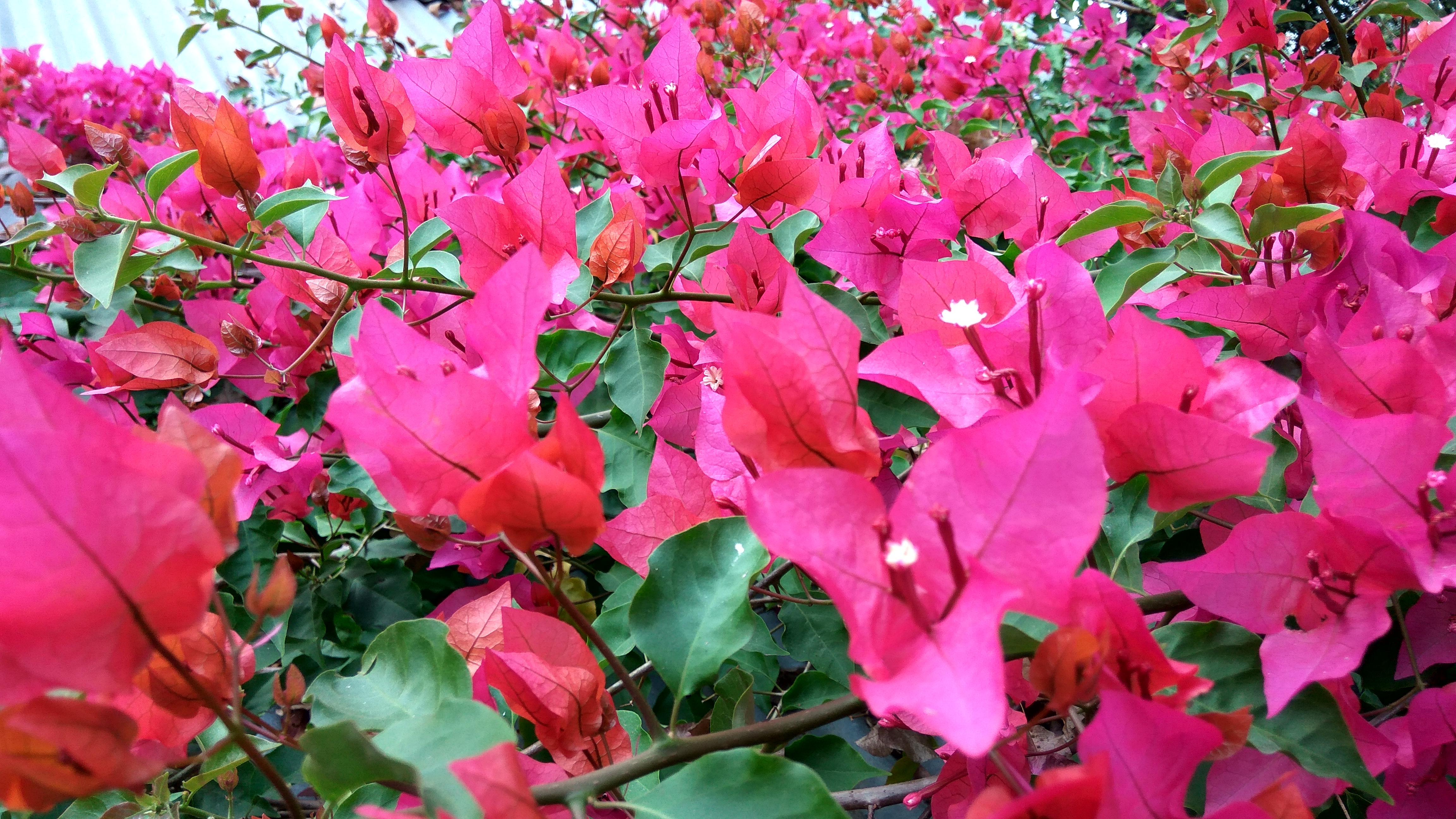 Bougainvillea glabra in Bangladesh